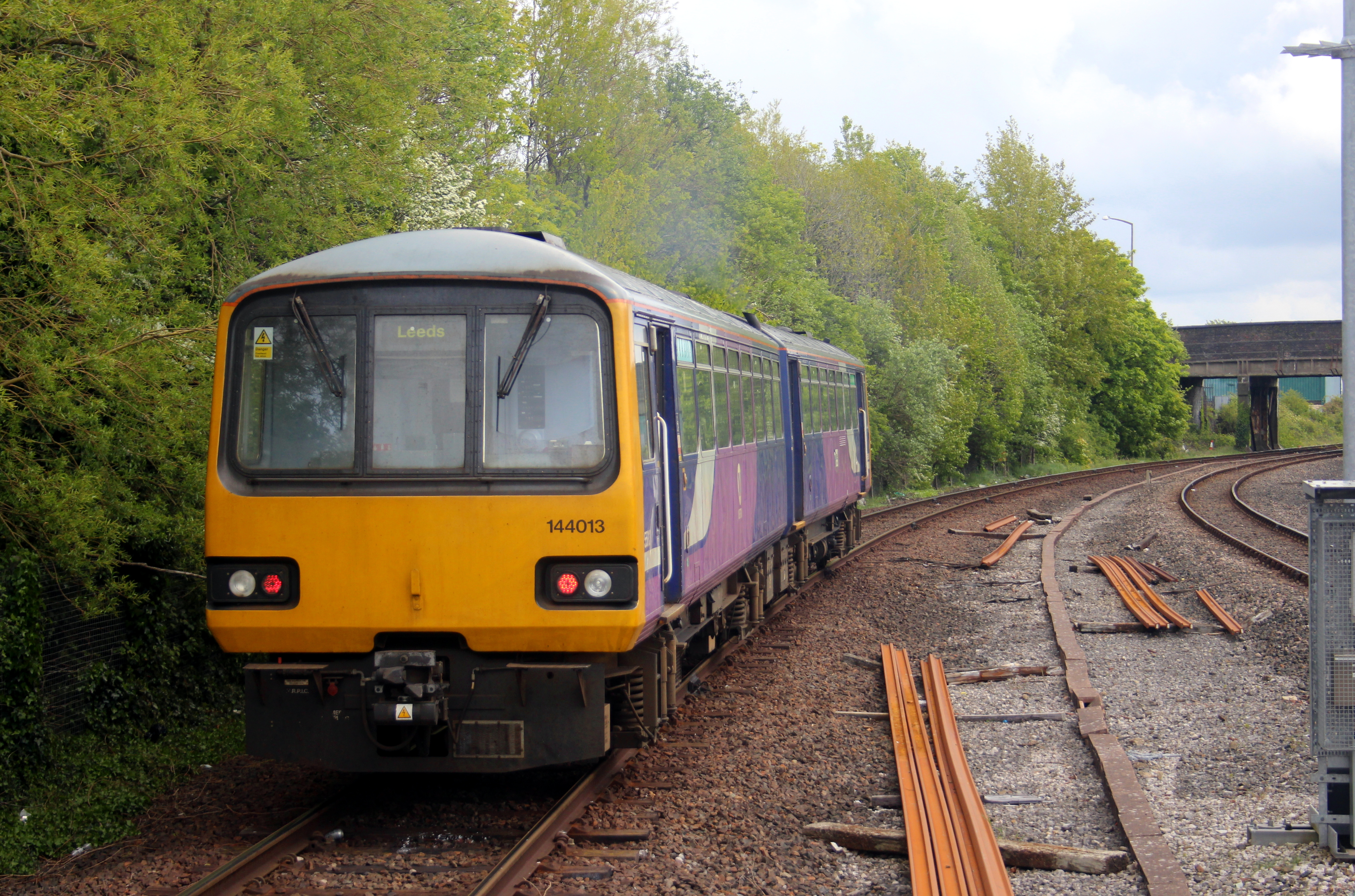 A Northern Class 144 two-car unit (number 144013) leaving Morecambe station, with a service to Leeds via Lancaster and Skipton.